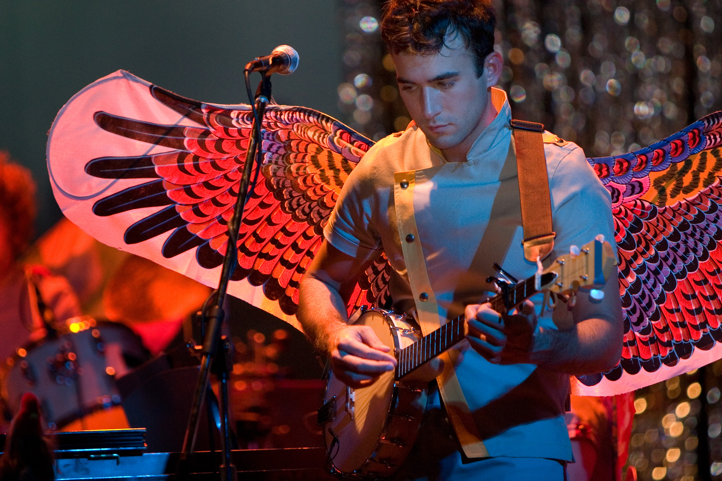 Sufjan Stevens performing at the Pabst Theater in Milwaukee. Photo taken from shifting pixel, photographer: Joe Lencioni.